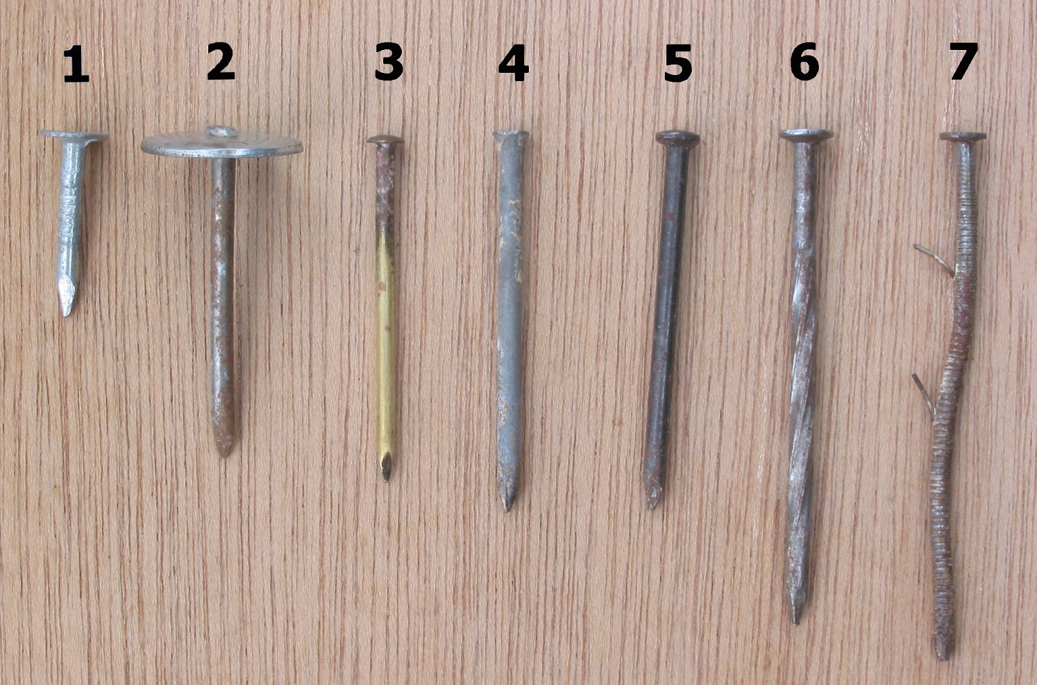 Nails – 1=asphalt nail; 2=asphalt nail with broad head; 3=copper nail; 4=steel nail with missing head; 5=flathead steel nail; 6=screw-shank nail; 7=ring-shank nail with barbs